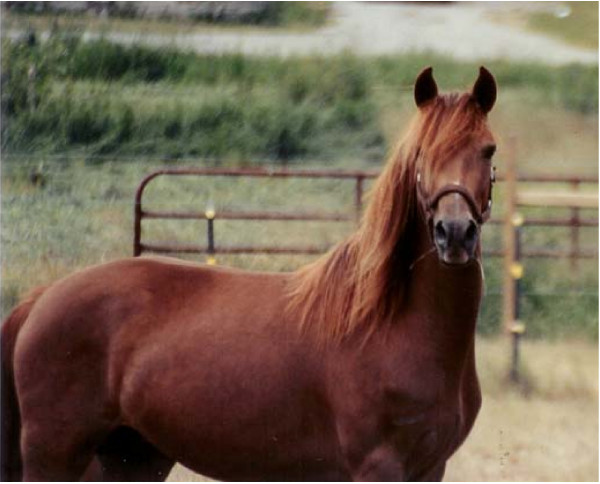 A chestnut Morgan horse that carries the Silver mutation. This particular individual (Amanda's Suzie Q) indicate that the Silver mutation in horses has little or no effect on pheomelanin (as mane does not seem to be diluted) (Horse coat colors: Silver dapple gene)